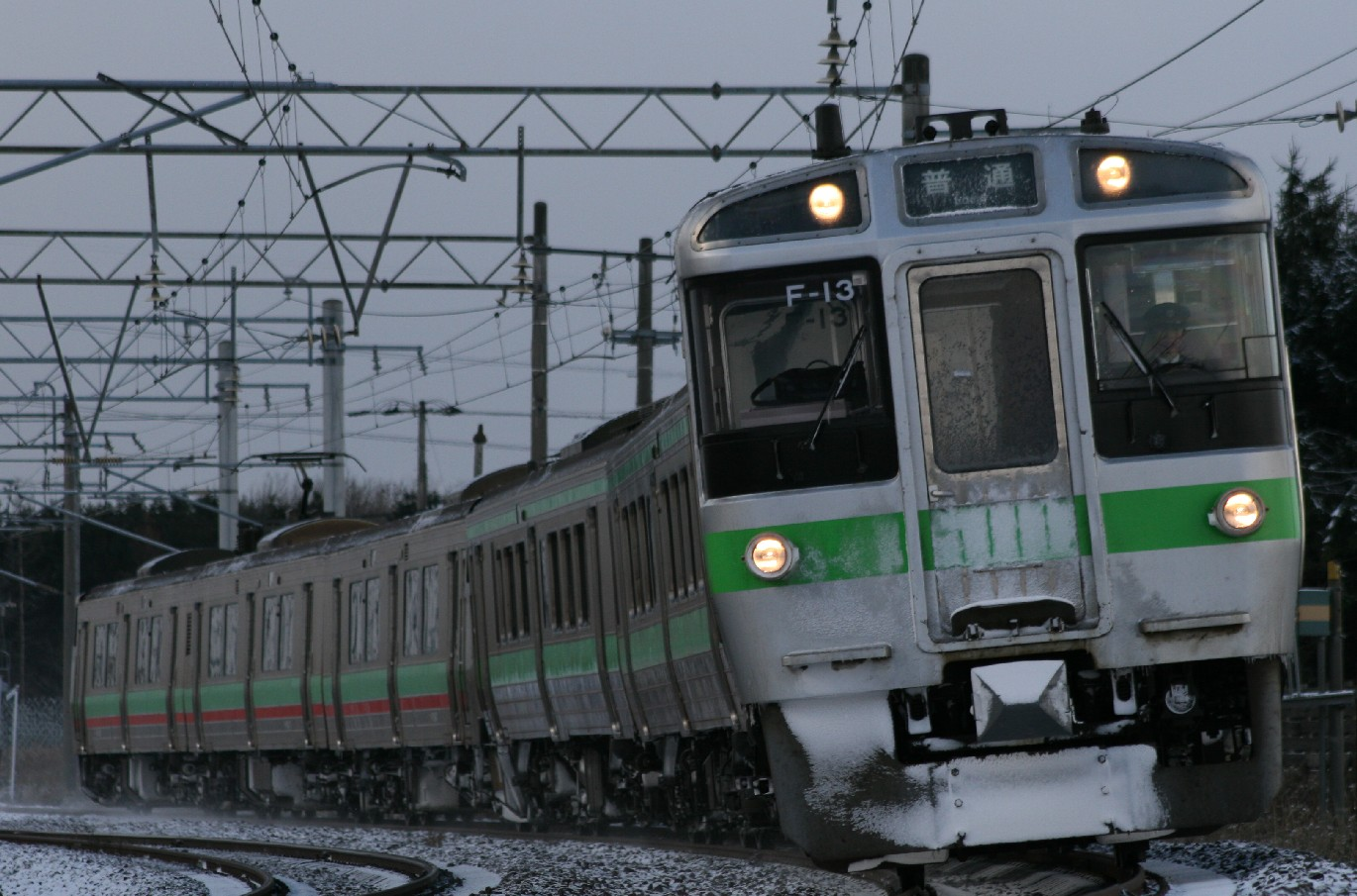 JRHOKKAIDO SERIES721&731